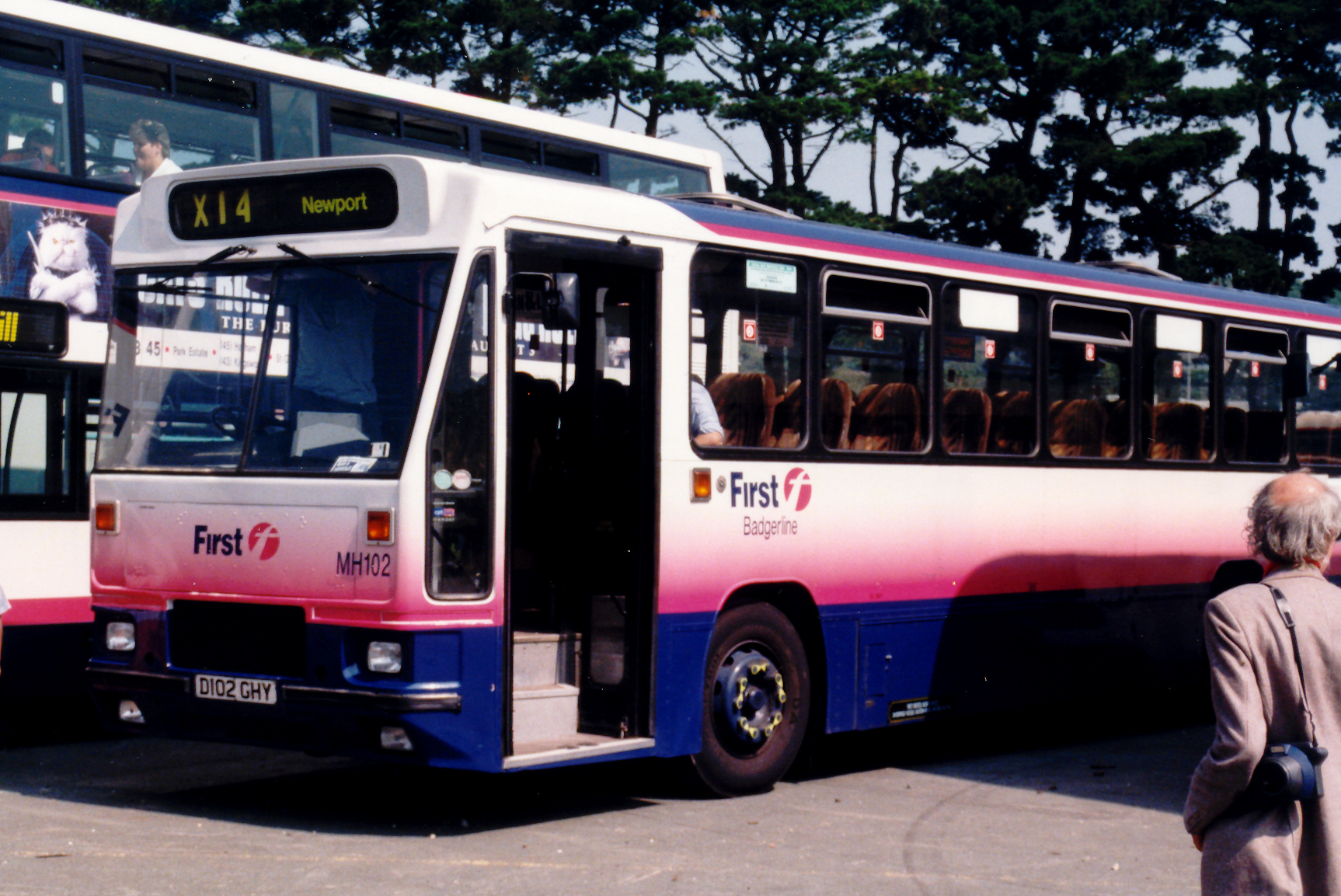 Plymouth Seaton Barracks site 2001